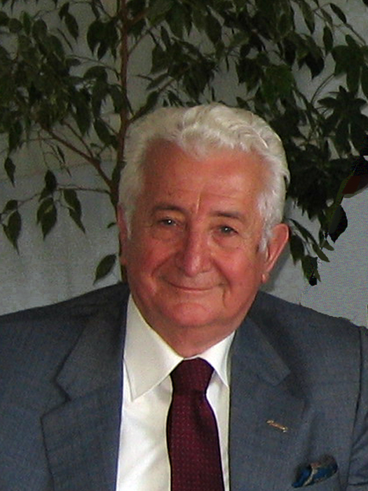 Orhan Karaveli in Mersin (2007)